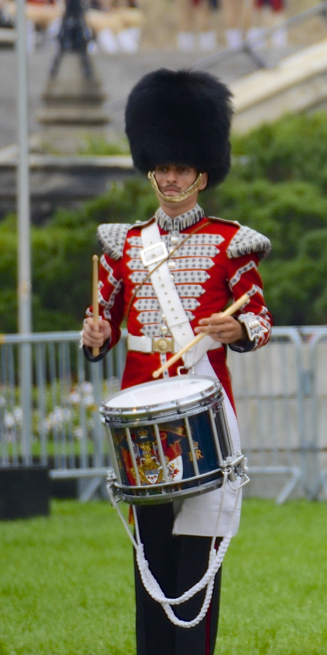 Members of the Governor General's Ceremonial Guard perform at Fortissimo 2012. All soldiers are drawn from the Canadian Forces Army Reserve/Militia.